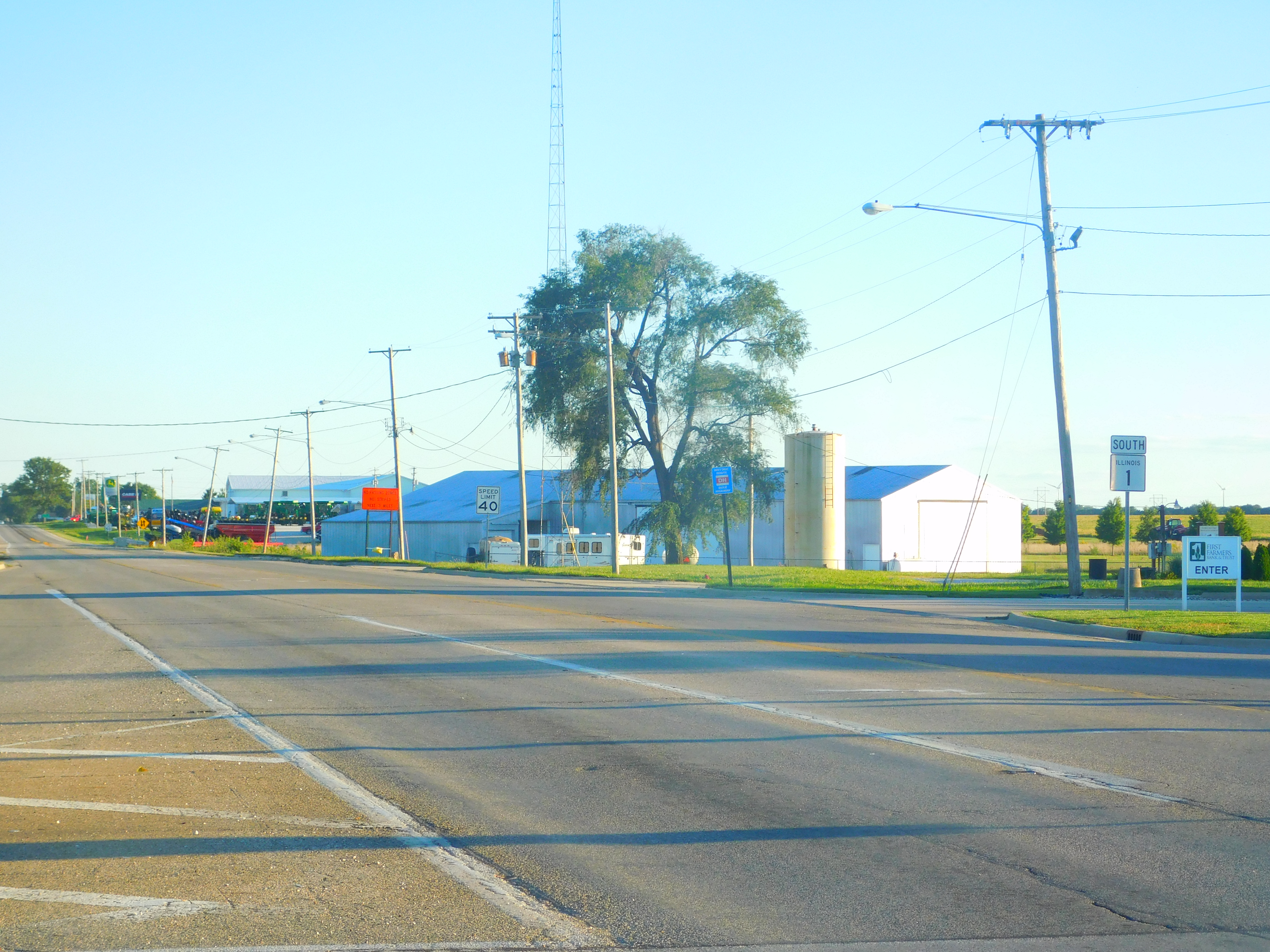 Illinois Route 1 southbound from Illinois Route 9 in Hoopeston, Illinois.